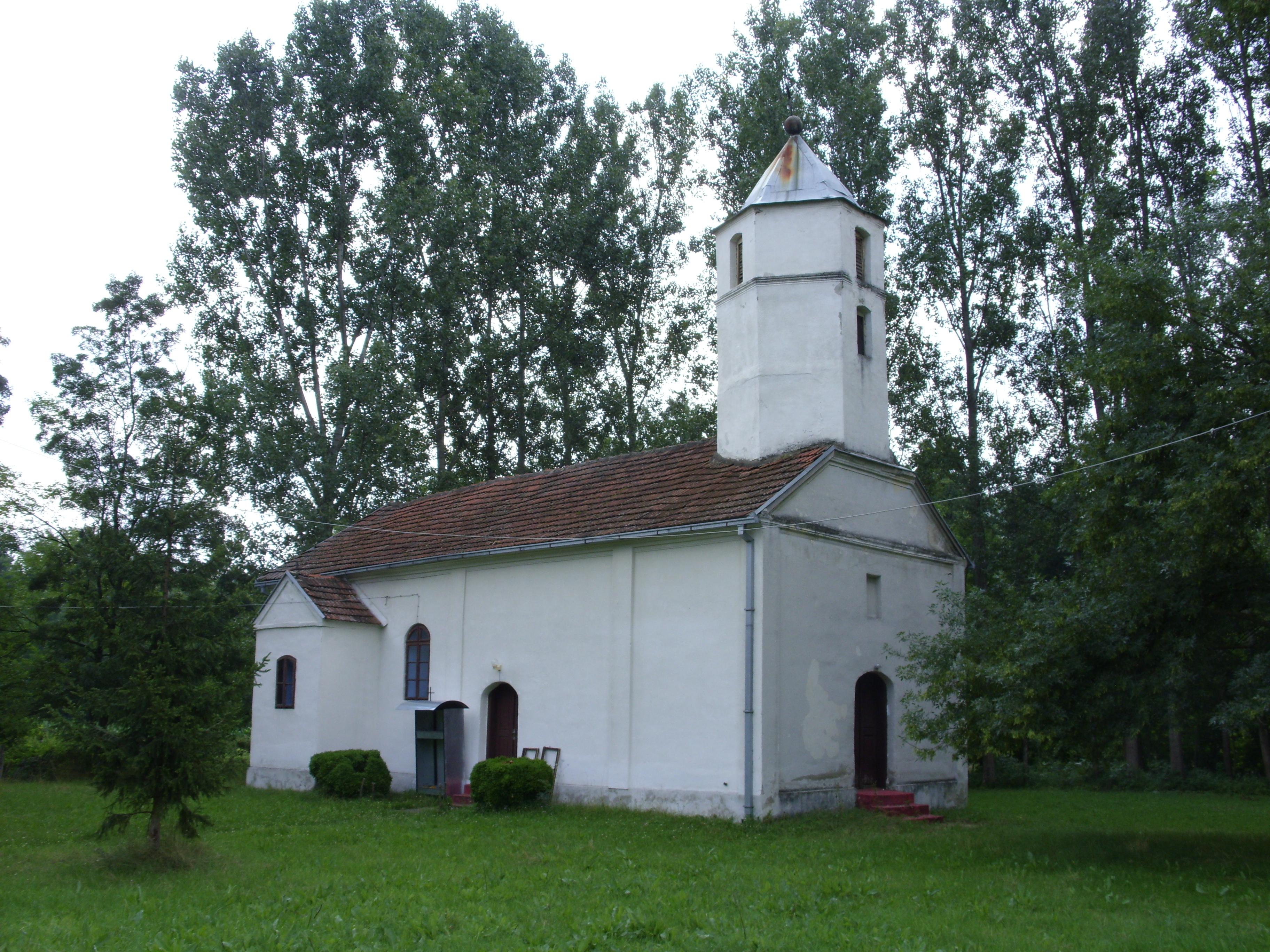 Serbian ortodox church of village Čukurovac, Municipality of Aleksinac, Serbia